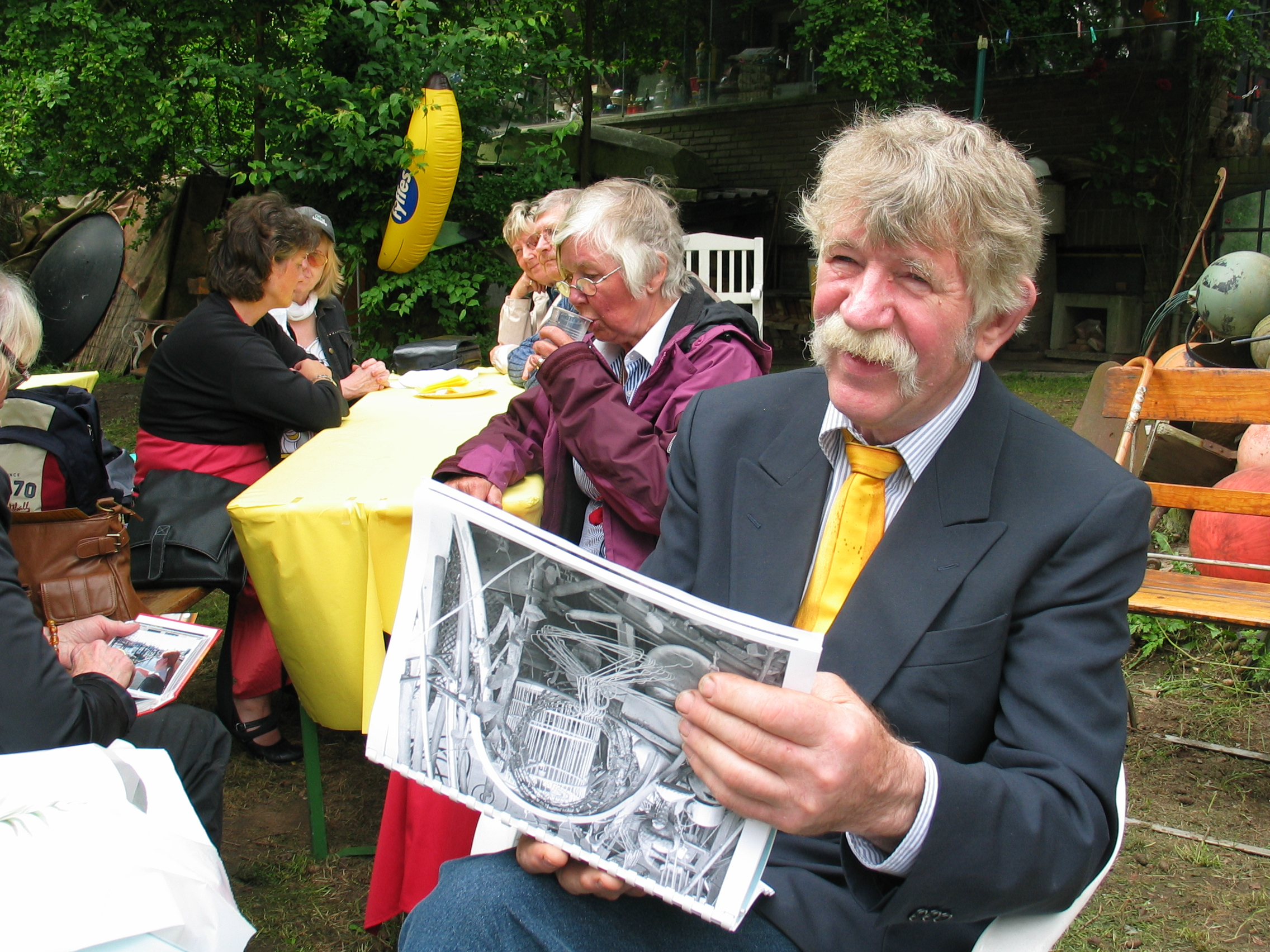 Bernhard Stellmacher (pseudonym: Stelli Banana), founder and director of "Erstes Deutsches Bananenmuseum" (First German Banana Museum) Sierksdorf, Germany at a public event.